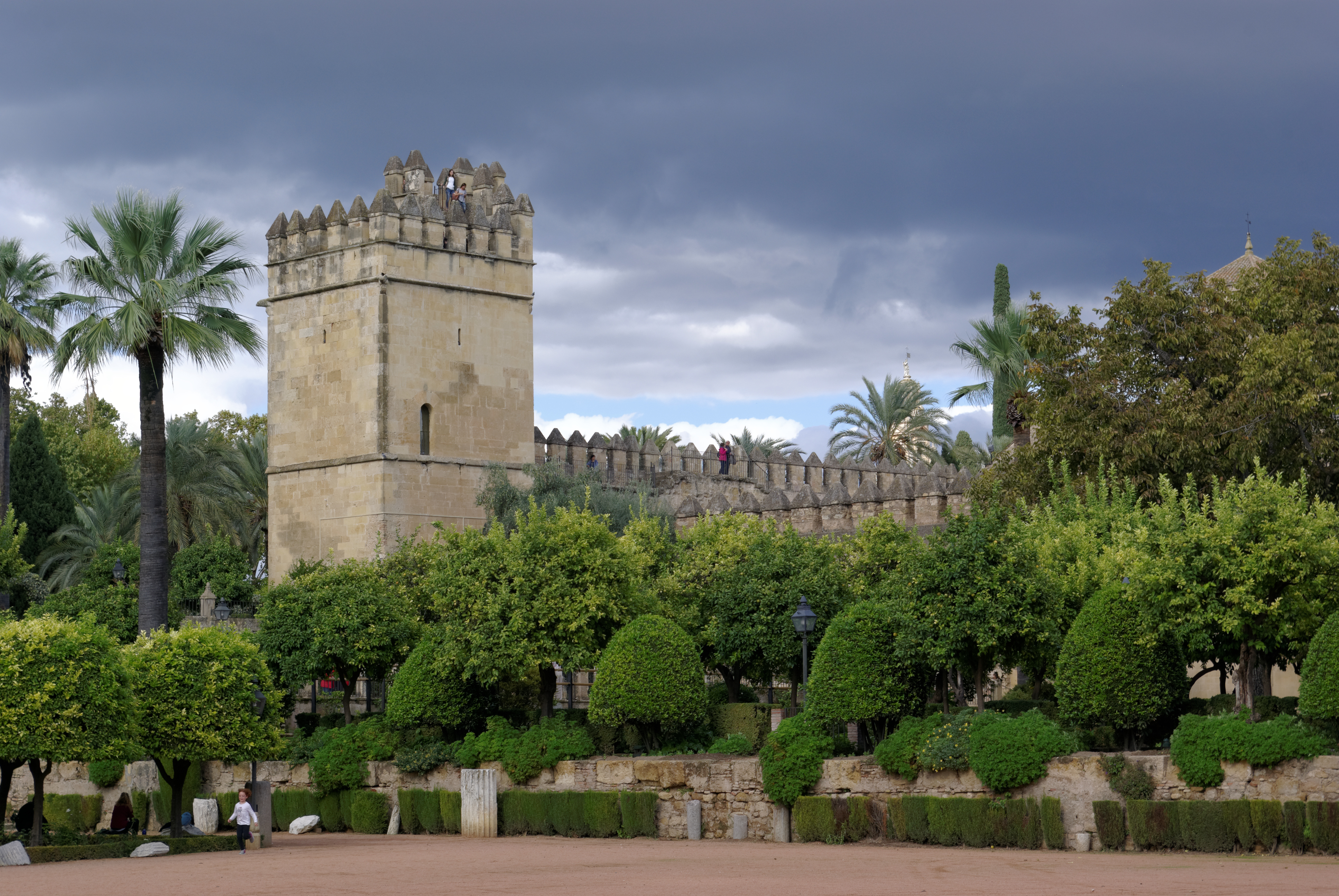 Spain, Cordoba, Alcázar de los Reyes Cristianos